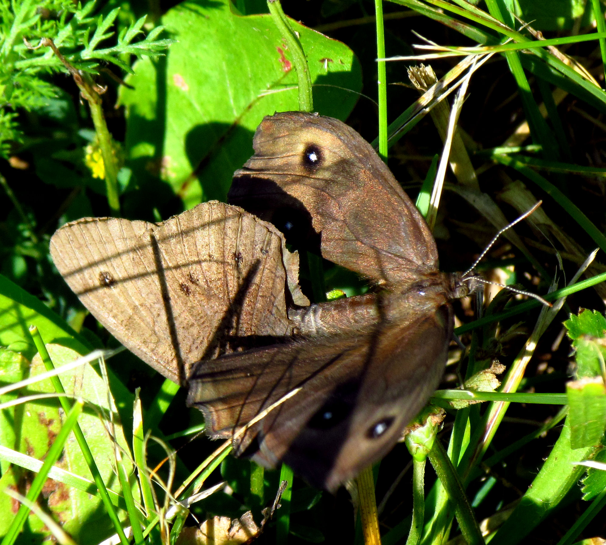 Common Wood-nymphs (Cercyonis pegala nephele), mating, Fort St. Joseph National Historic Site of Canada, Jocelyn, Ontario, Canada